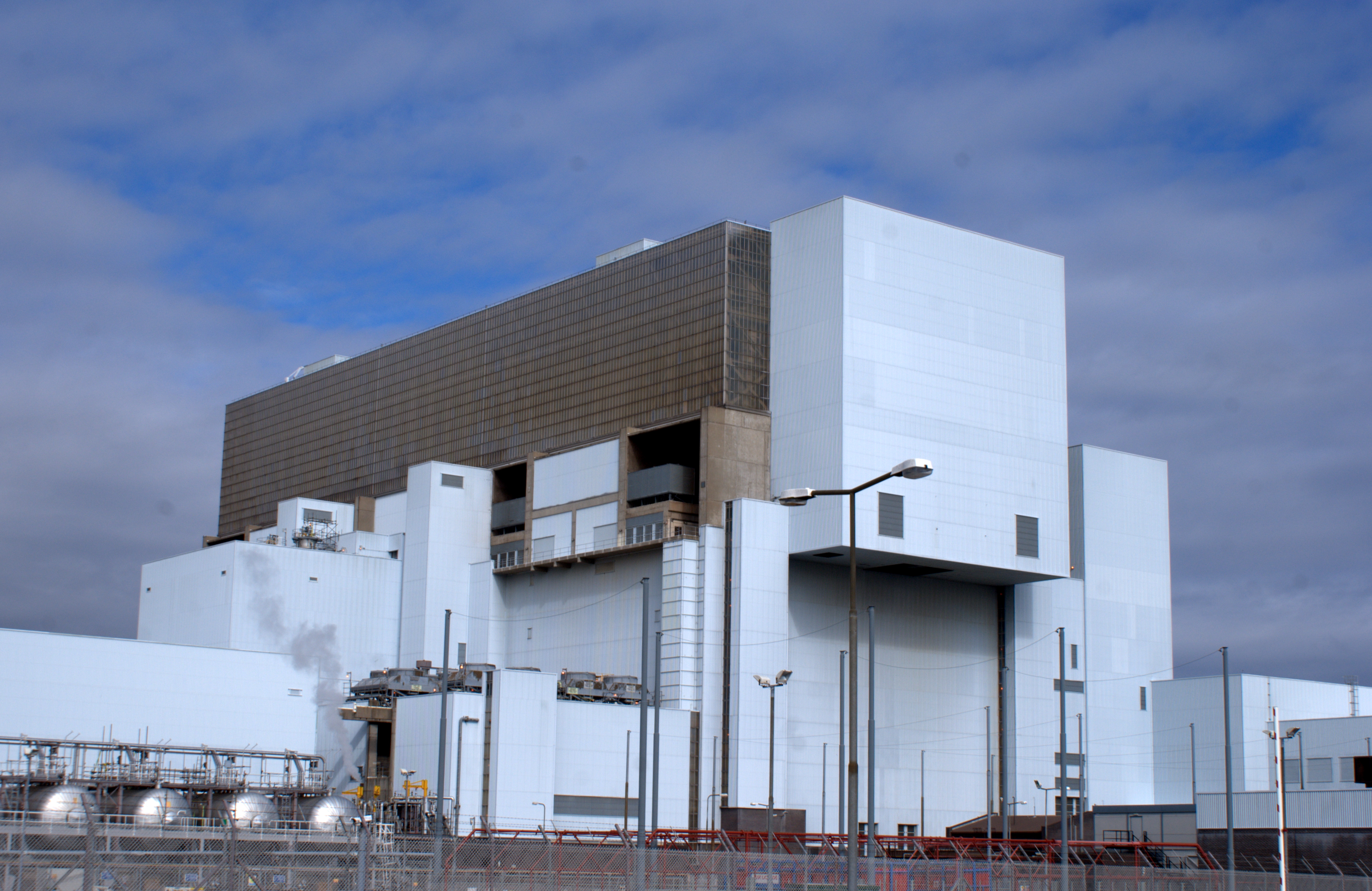 Reactors building of the Torness Nuclear Power Station photo taken from the parking lot.